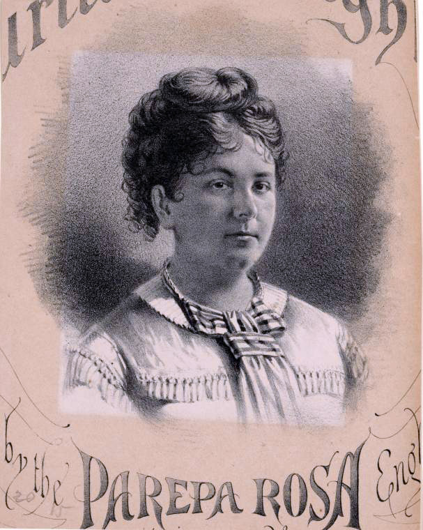 Detail from a poster advertising an appearance by Euphrosyne Parepa-Rosa (1836-1874) with the Carl Rosa Opera Company